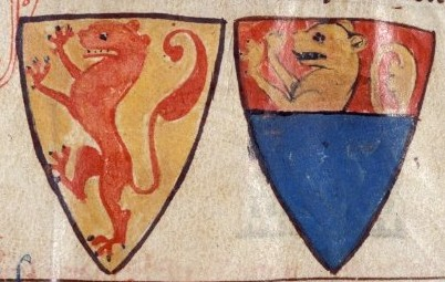 Arms of William of Holland, referring to his election as king of Germany